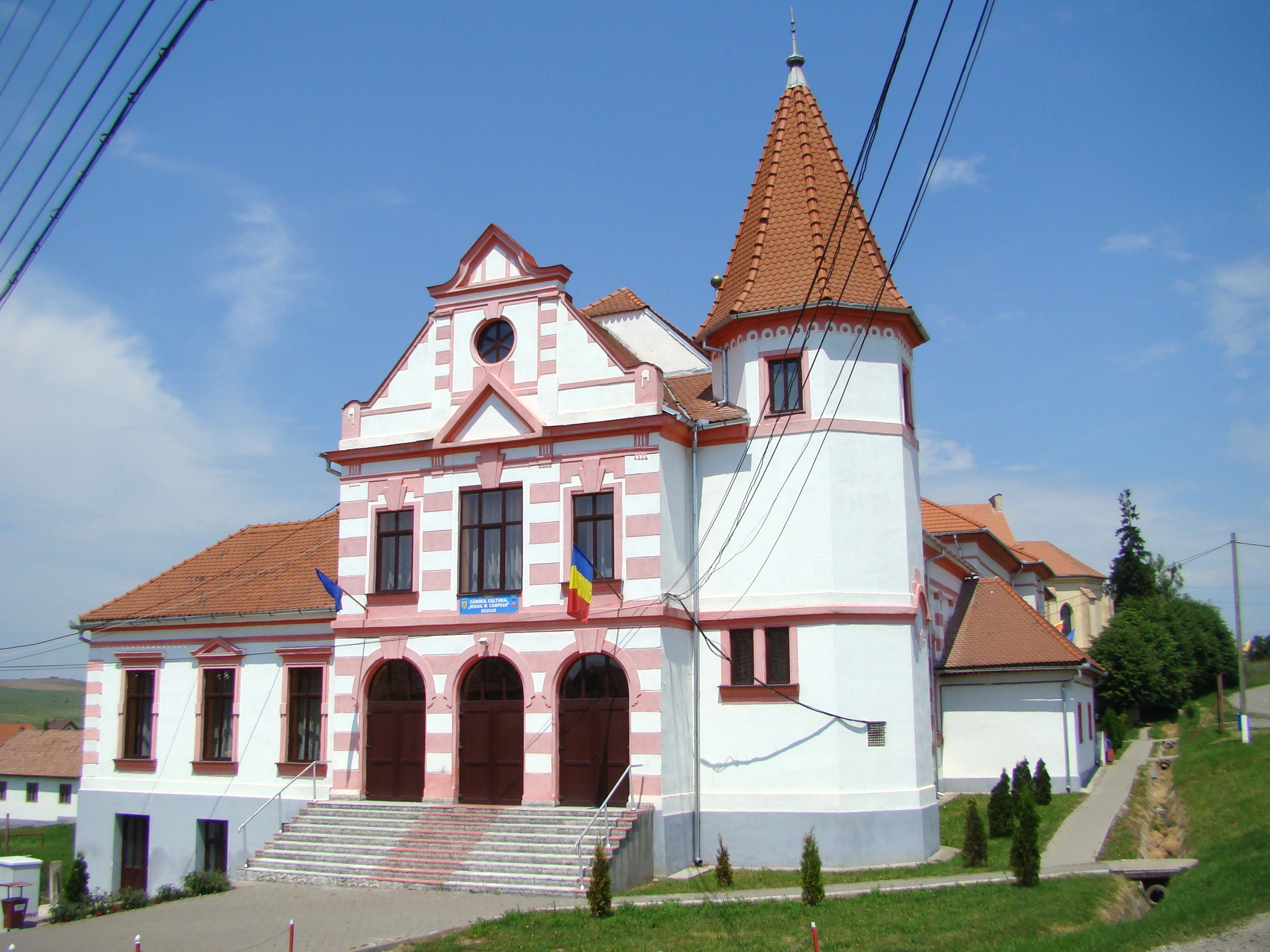 Dedrad, Mureș county, Romania